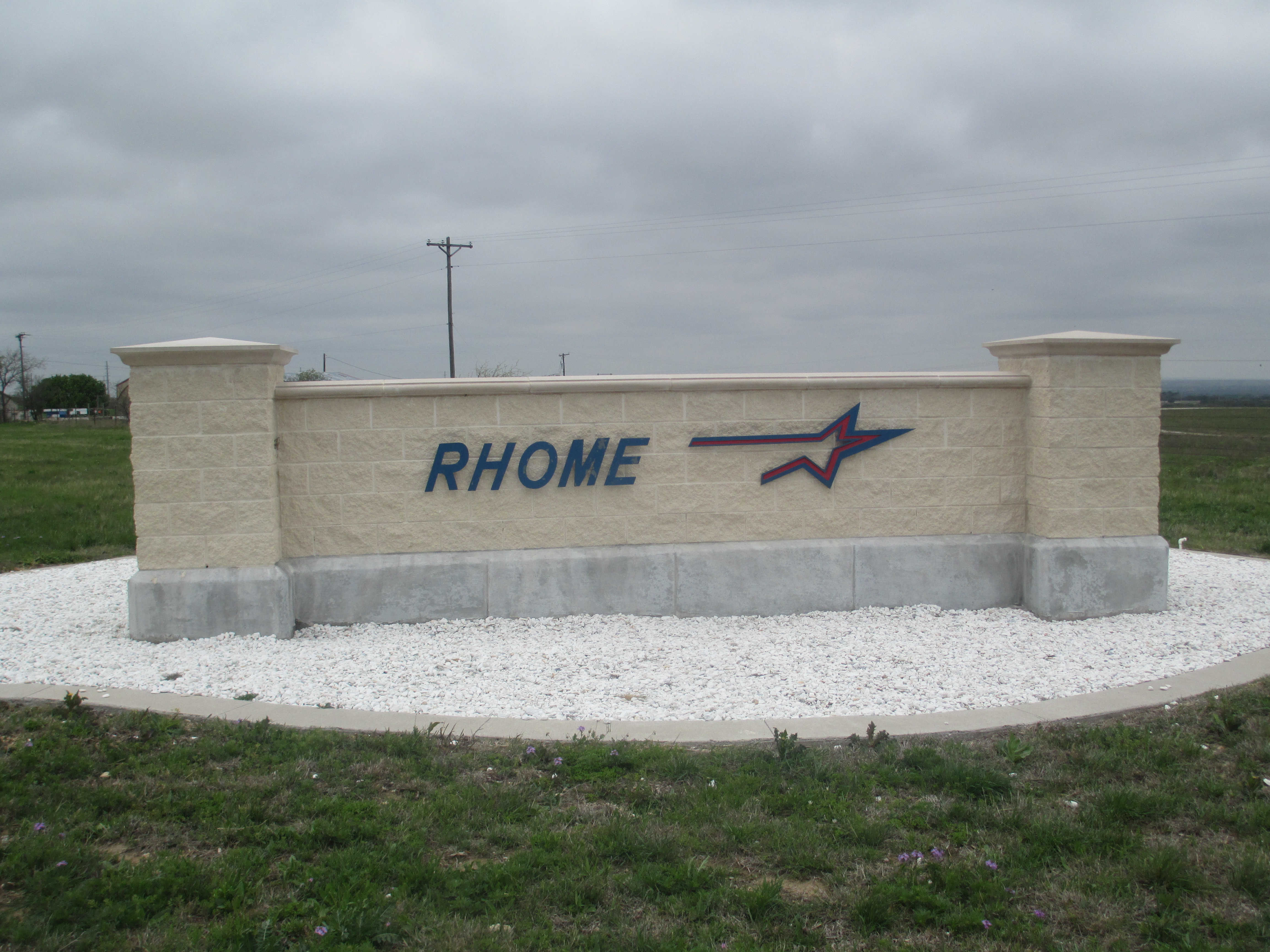 I took photo of Rhome, TX, entry sign with Canon camera, April 7, 2013. Billy Hathorn (talk) 18:55, 9 April 2013 (UTC)